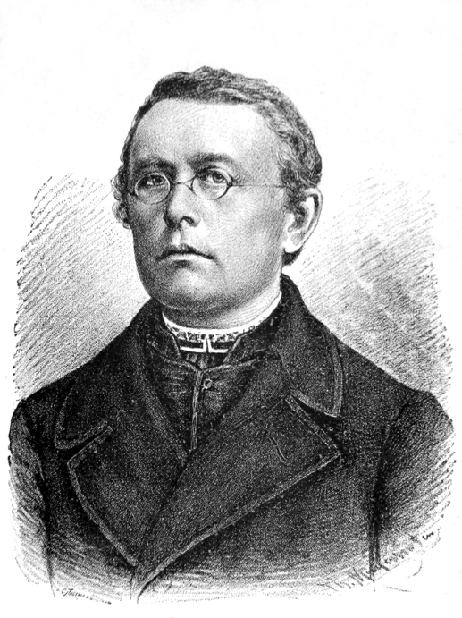 Mykhailo Verbytsky, Ukrainian composer. Autolithograph, from about 1870, when the notes and music for the Ukrainian national anthem were first printed